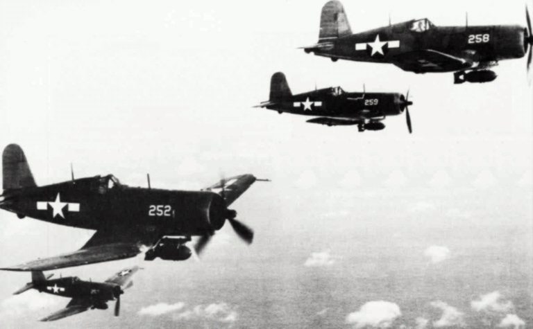 Four U.S. Marine Corps Vought F4U-1 fighters armed with bombs in late 1943 or early 1944. Note that the lowest flying Corsair (No "257") has not yet the white bars added to the U.S. national insignia. The reluctance to comply with the ordered changes was typical for USMC squadrons in the South-West Pacific.